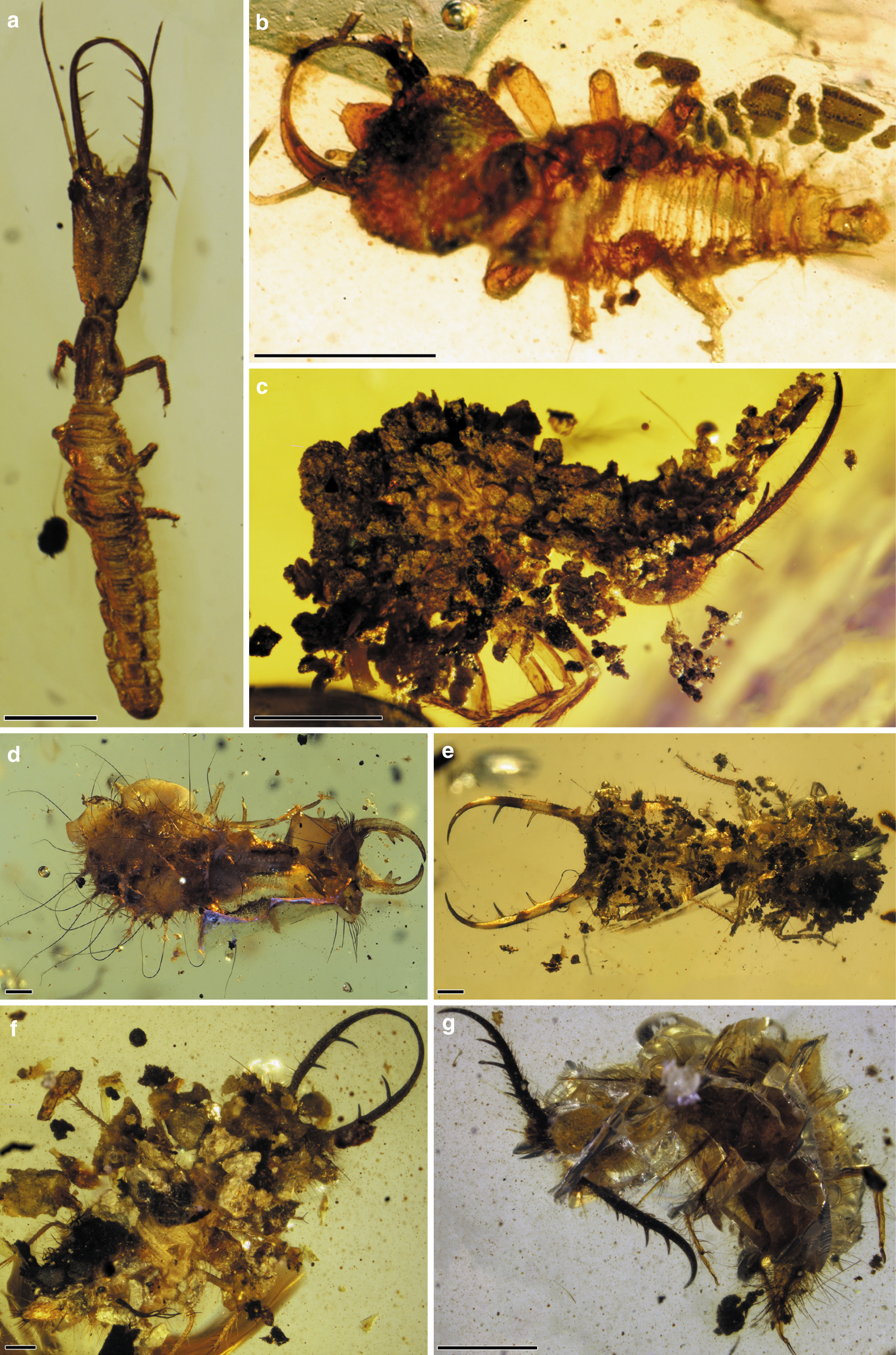 Diversity of the larvae of Myrmeleontiformia in mid-Cretaceous Burmese amber. a Macleodiella electrina gen. et sp. nov., holotype. b Aphthartopsychops scutatus gen. et sp. nov., holotype. c Nymphavus progenitor gen. et sp. nov., paratype. d Electrocaptivus xui gen. et sp. nov., holotype. e Diodontognathus papillatus gen. et sp. nov., holotype. f Adelpholeon lithophorus gen. et sp. nov., holotype. g Pristinofossor rictus gen. et sp. nov., holotype. Scale bars: 0.5 mm